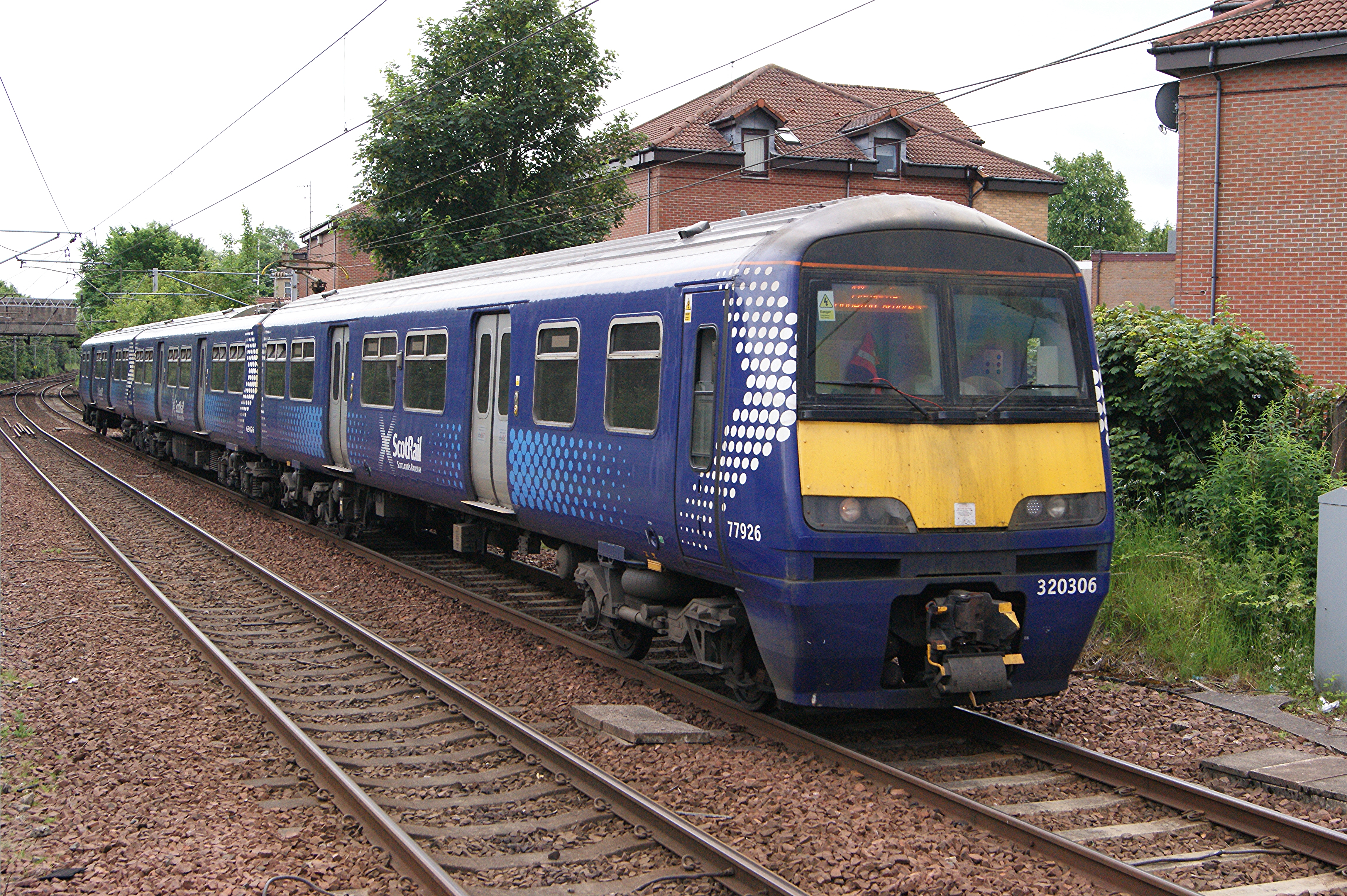 BREL (York) Class 320 Standard Mark III 25k v ac overhead outer-suburban 4-car emu No.320 306 of Scotrail approaching Whifflet on a Dalmuir - Cumbernauld service, 2 July 2015.